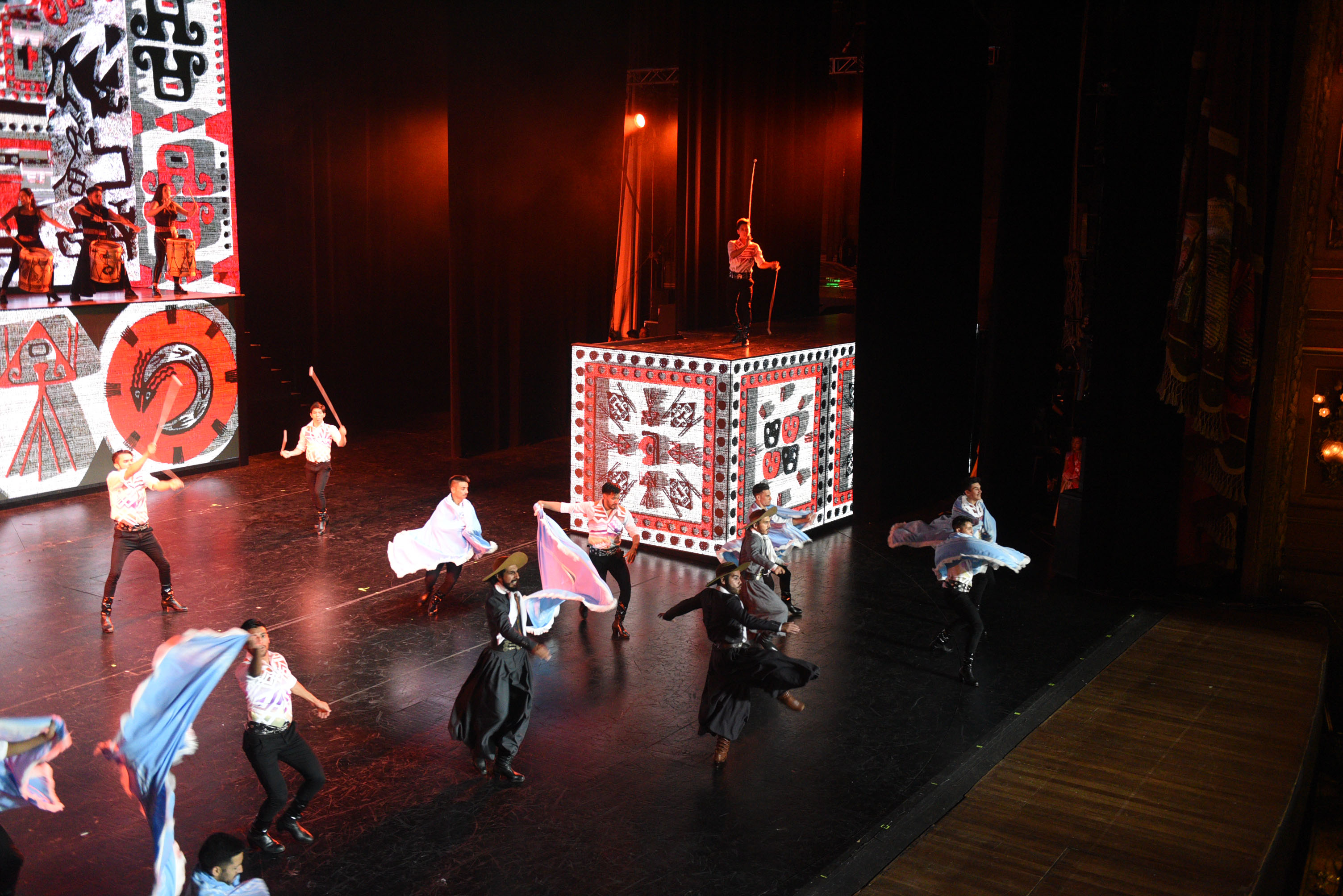 Cultural performance at Colon Theatre